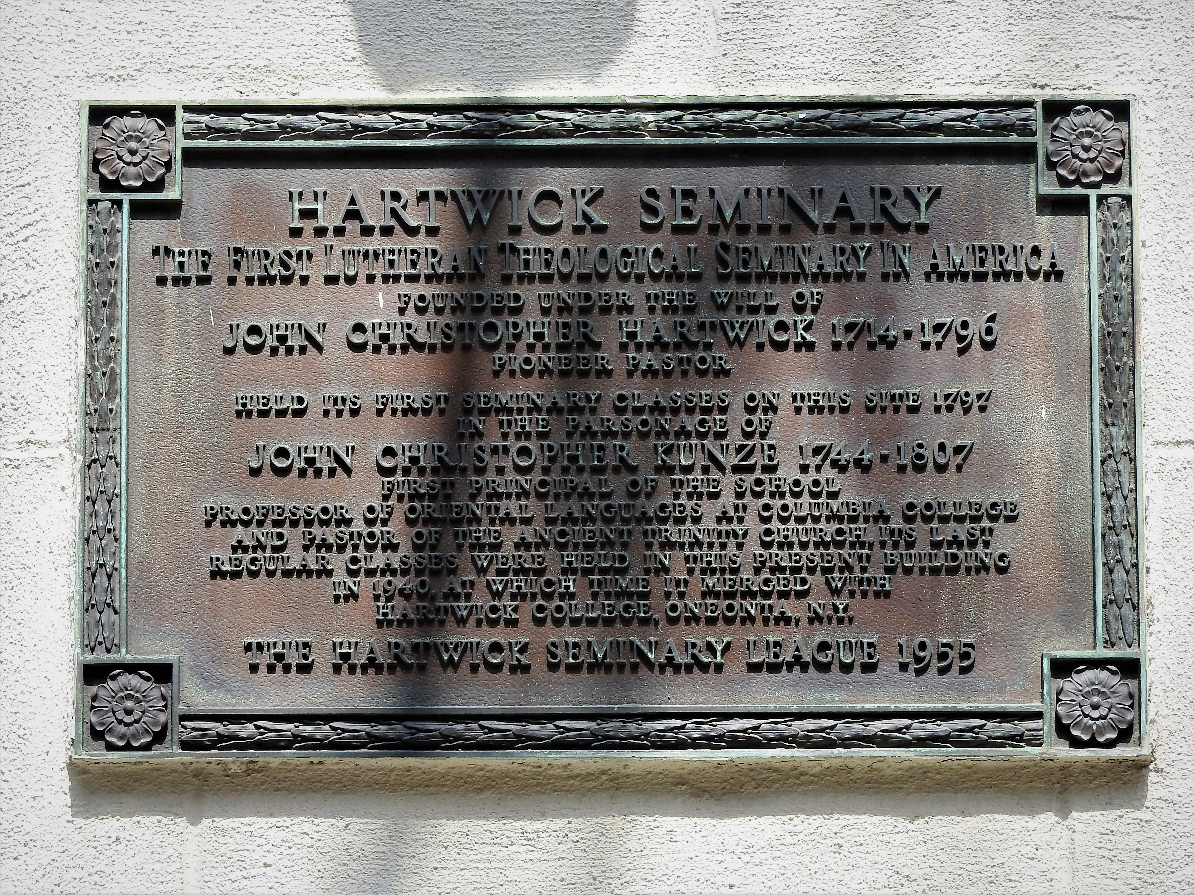 Looking north at plaque on St John's Church